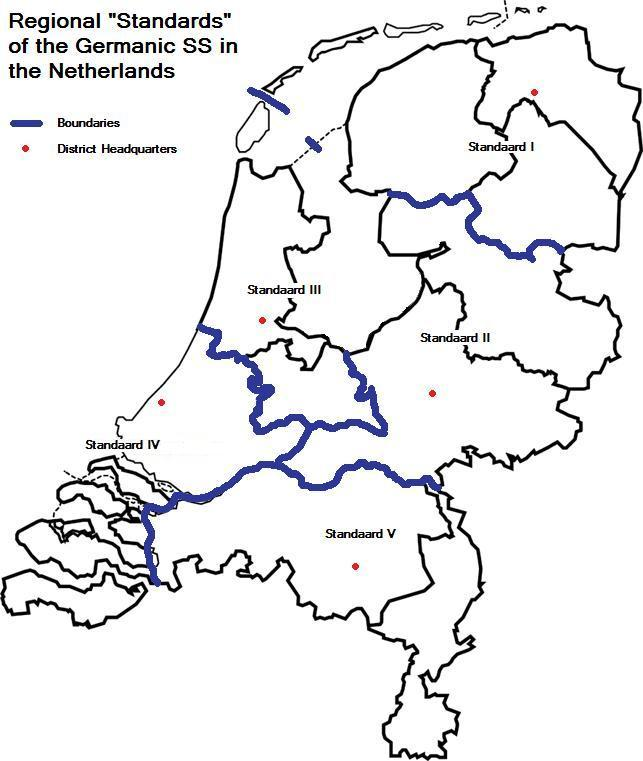 Regional standards of the Germanic SS in the Netherlands